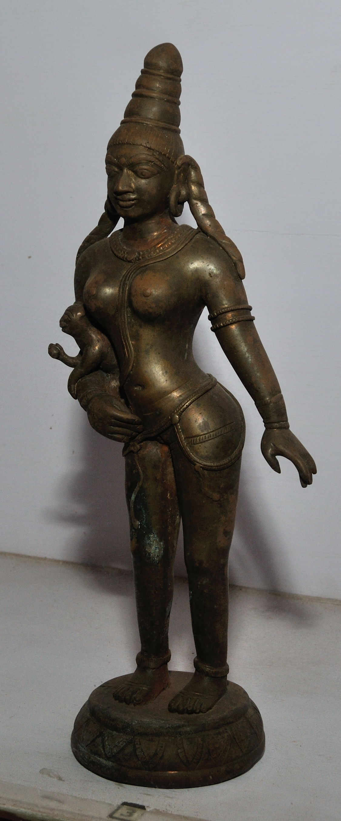 This artefact resides at the Government Museum, (hi: Rashtriya Sangrahalaya) formerly The Curzon Museum of Archaeology, Museum Road or Murari Lal Rajpal road, Dampier Nagar, Mathura, Uttar Pradesh, India. This museum is administrating by the State Government of Uttar Pradesh of India.